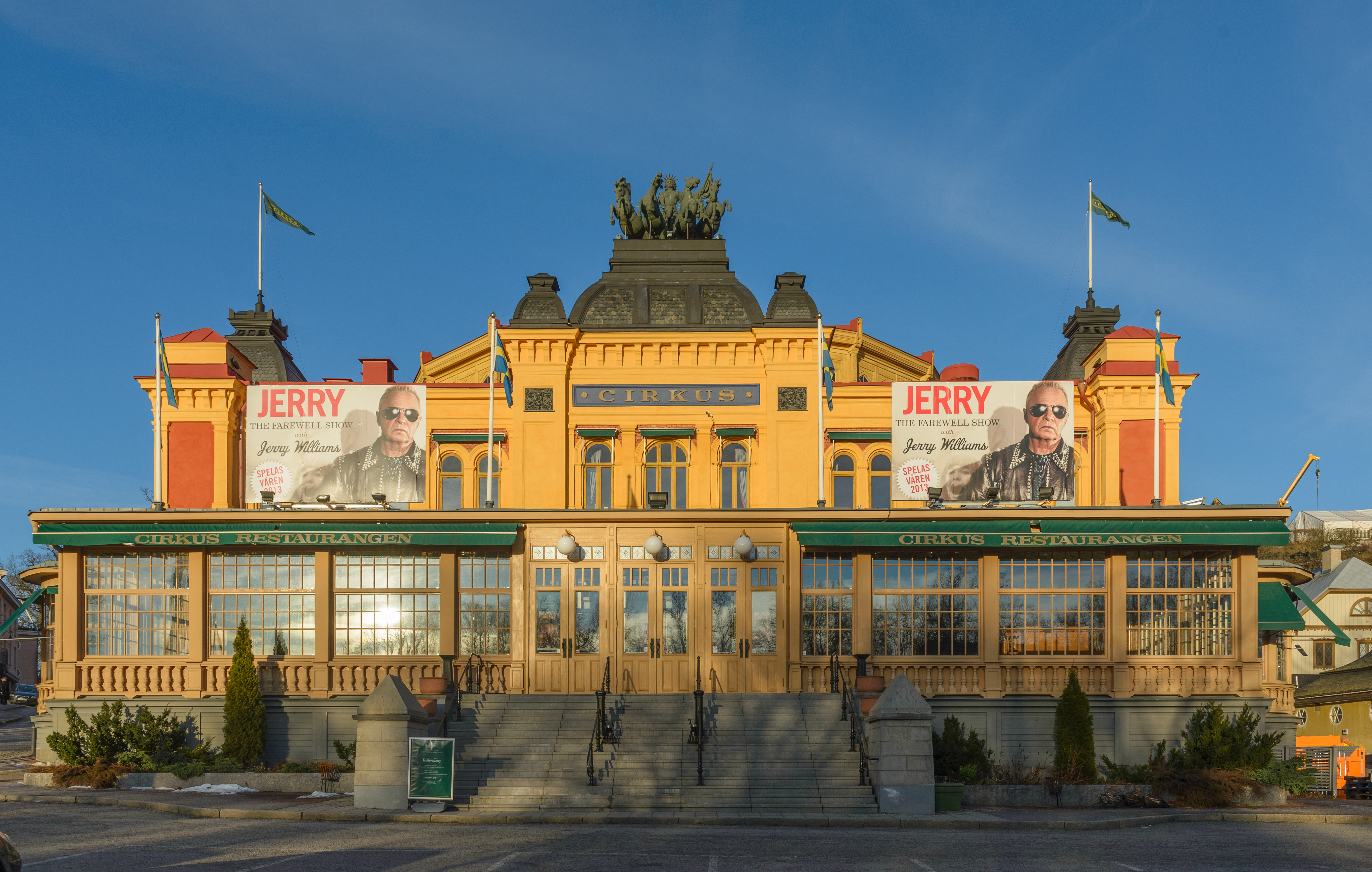 Cirkus is an arena in Djurgården, Stockholm, that holds 1,650 people. It was built in 1892 and originally used as a circus, but is today mostly used for concerts and musical shows.